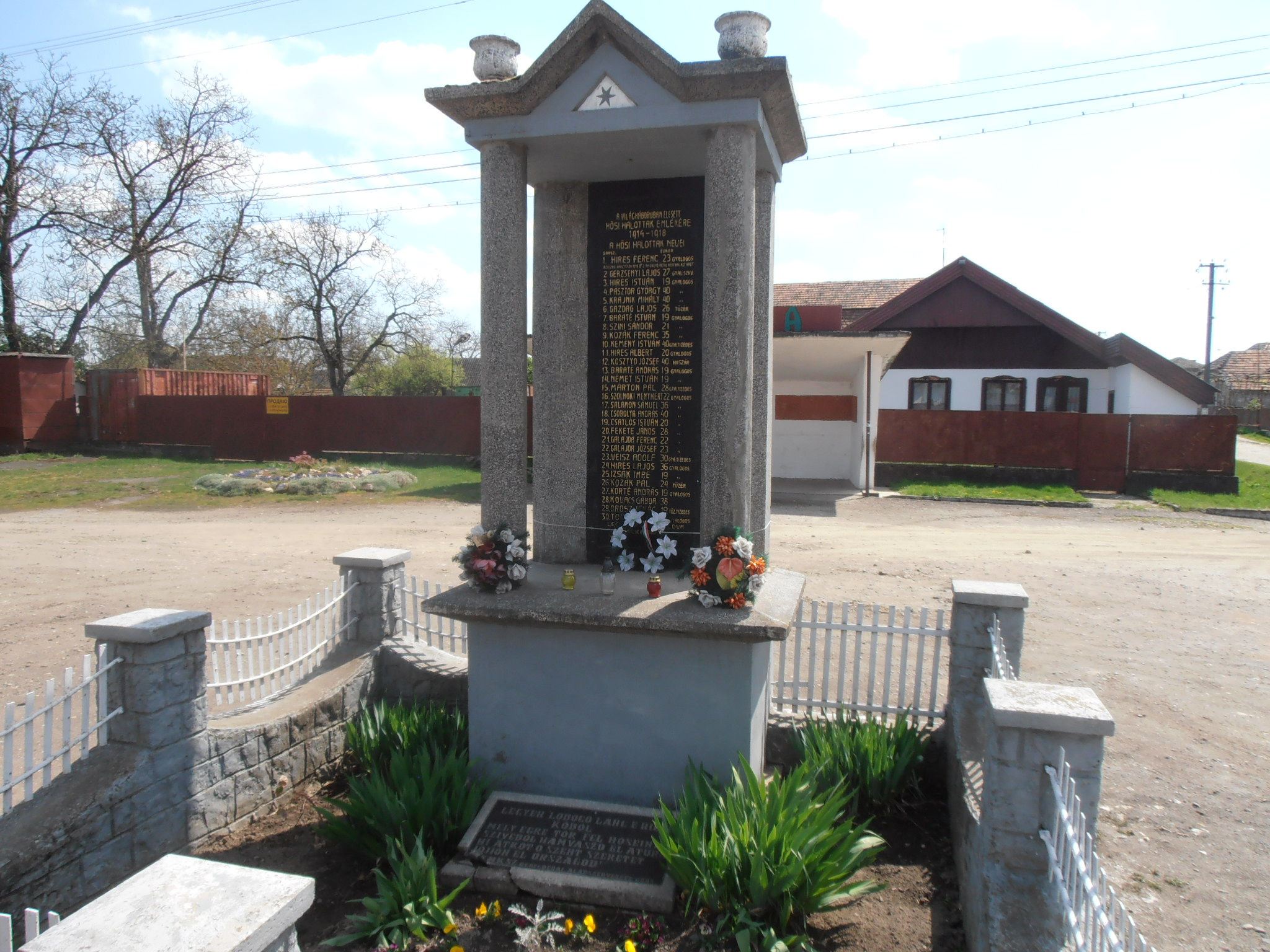 WWI memorial in Diyda, Ukraine